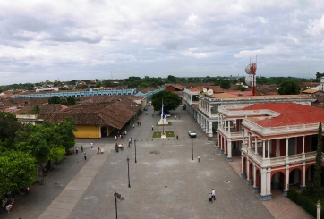 Independence Square, picture taken from the tower of the Cathedral of Granada.